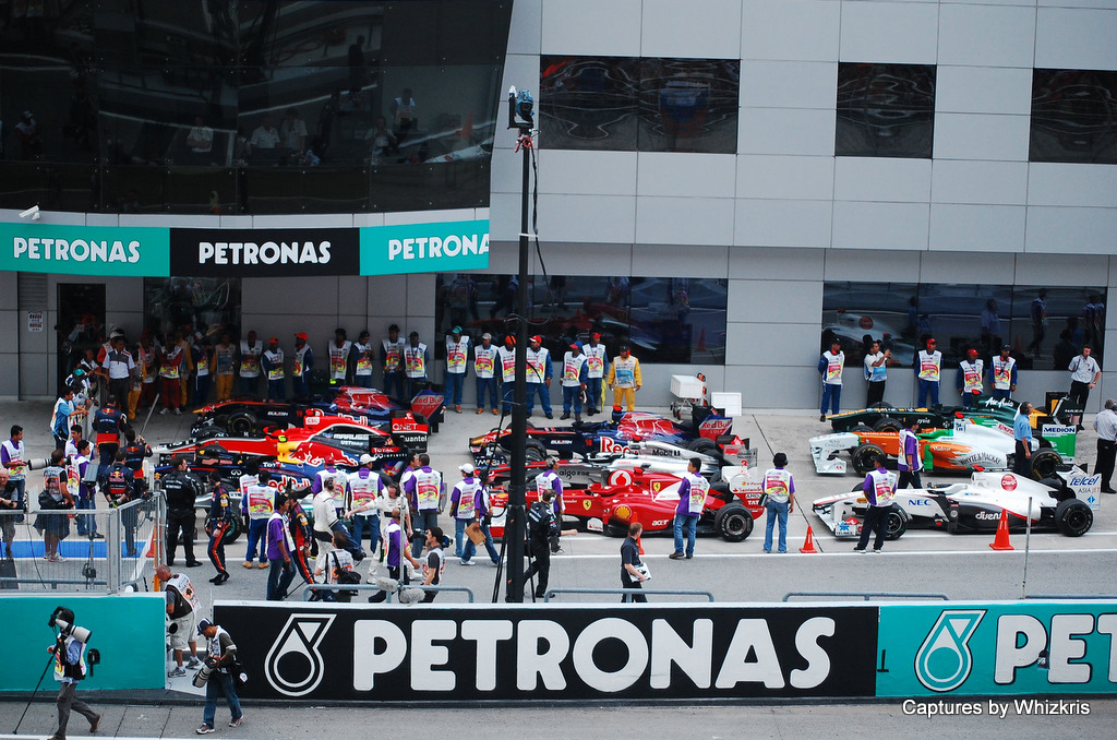 All the cars at the en:2011 Malaysian Grand Prix.